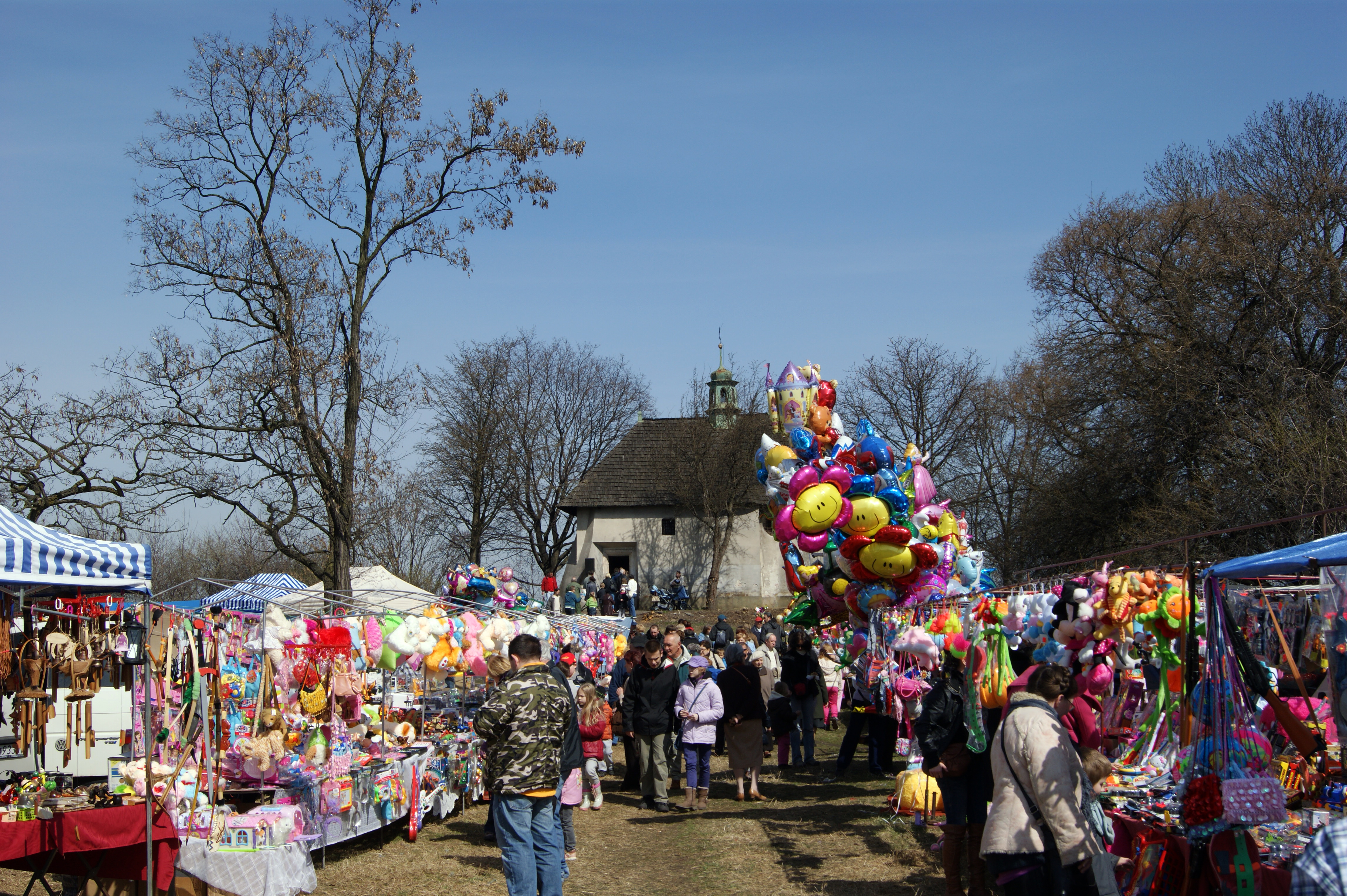 Church of St Benedict (parish church fete-Rekawka), Rekawka street, Podgórze, Krakow, Poland